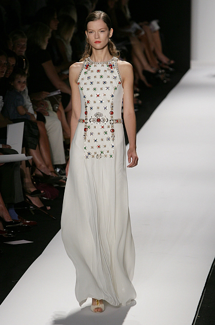 Kasia Struss in Carolina Herrera